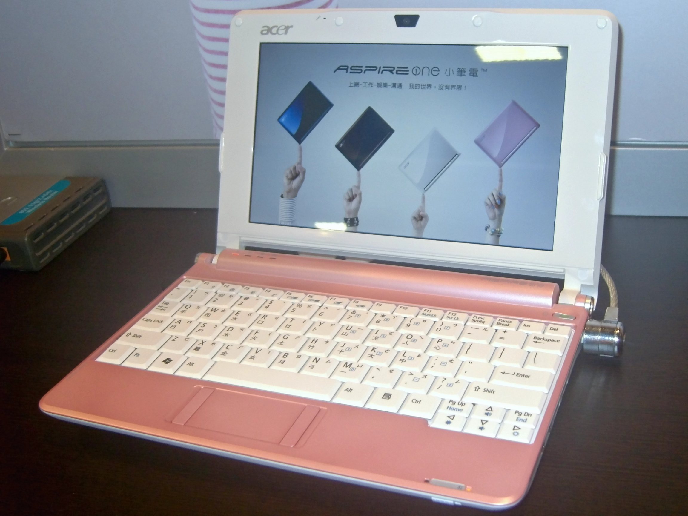 2008 Taipei IT Month: Acer Aspire One in pink.